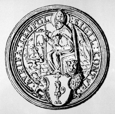 Drawing of the stamp of the Lviv Jewellers guild. Around 1600. Stored in Lviv History Museum.